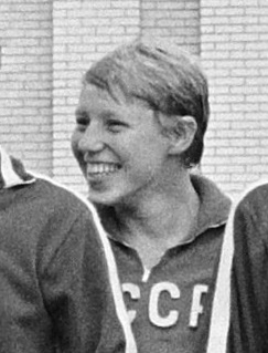 4x100 freestyle women podium, 1966 Europoean Championships Antonina Rudenko